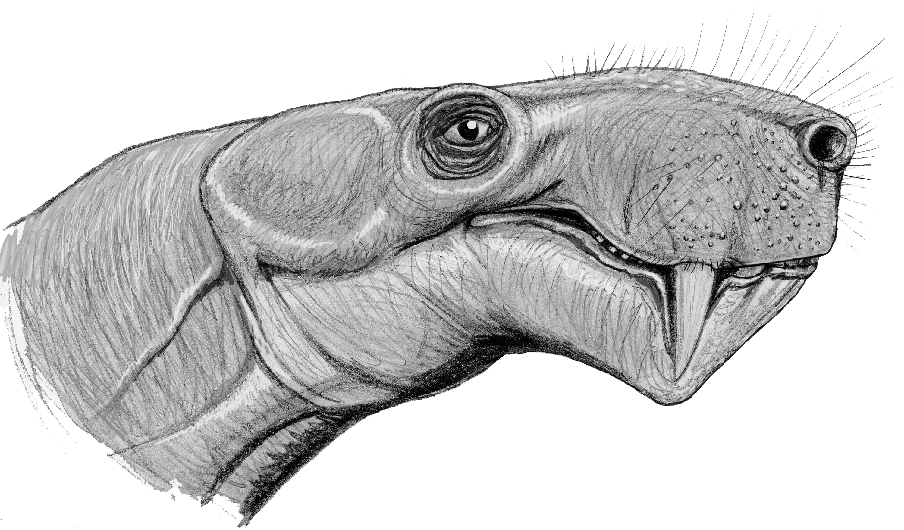 Head of Inostrancevia latifrons, giant gorogonopsian from Late Permian Sokolki Assemblage of North Dvina.